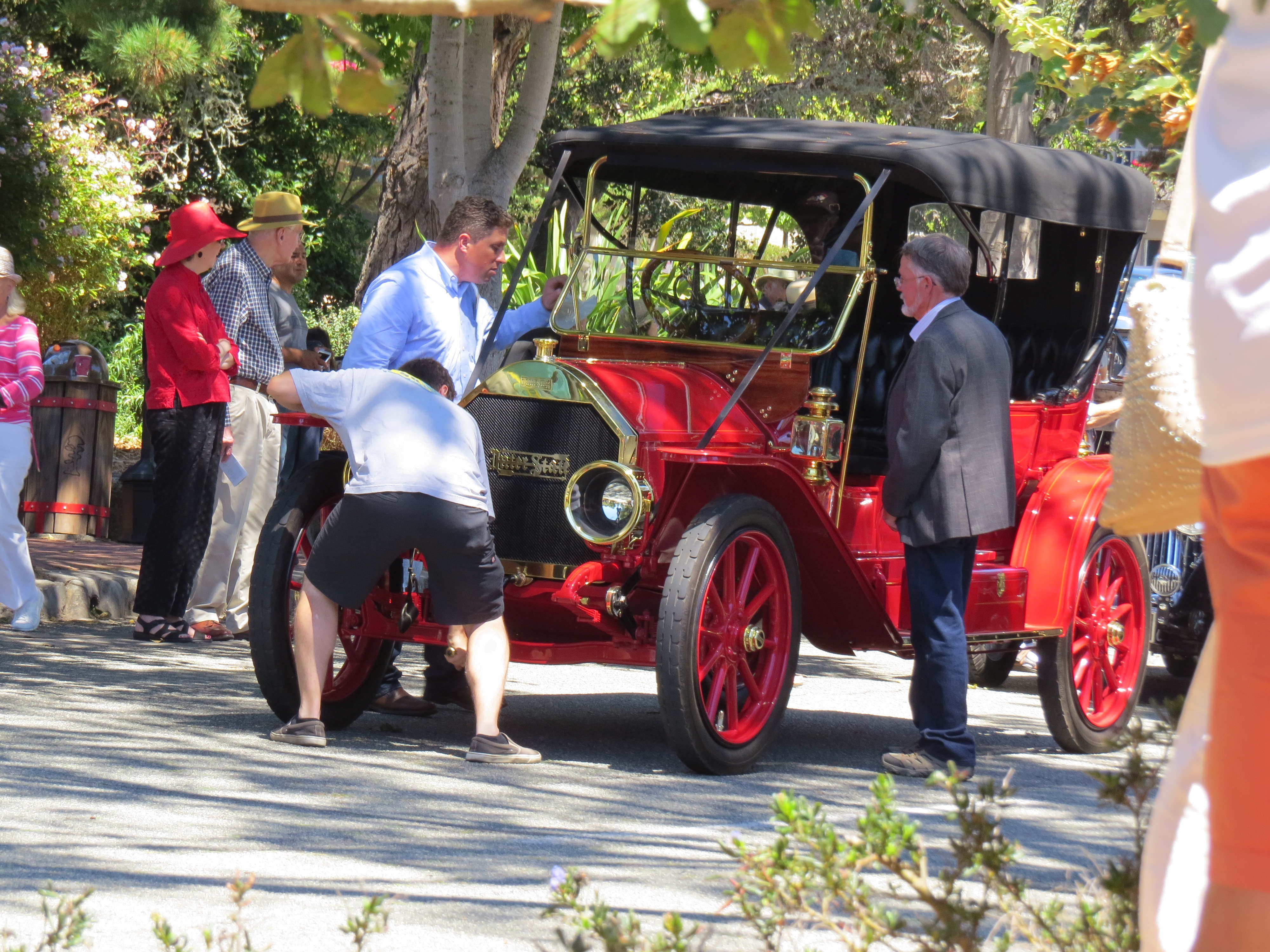 1911 Inter-State Model 31-A Demi-Touring seen at Pebble Beach Tour d'Elegance, August 13, 2015